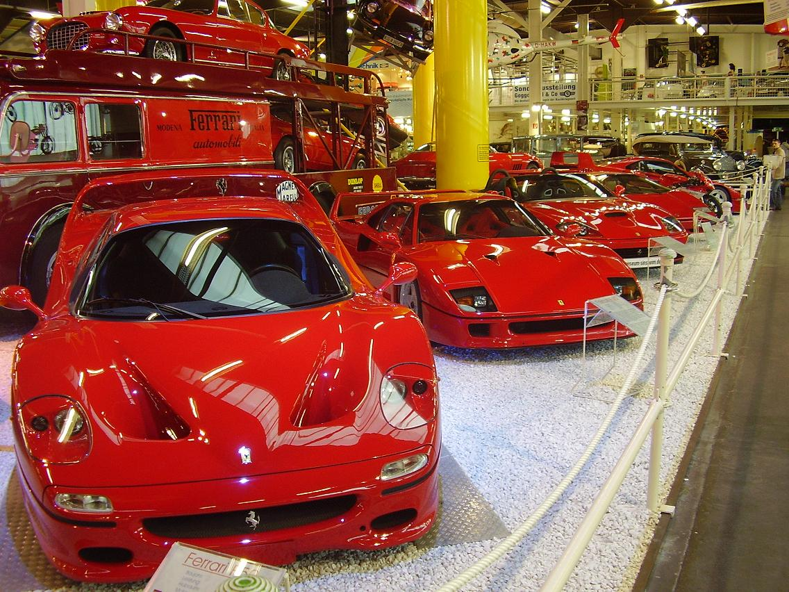 Ferrariat the Sinsheim Auto & Technik Museum (Sinsheim / Germany)